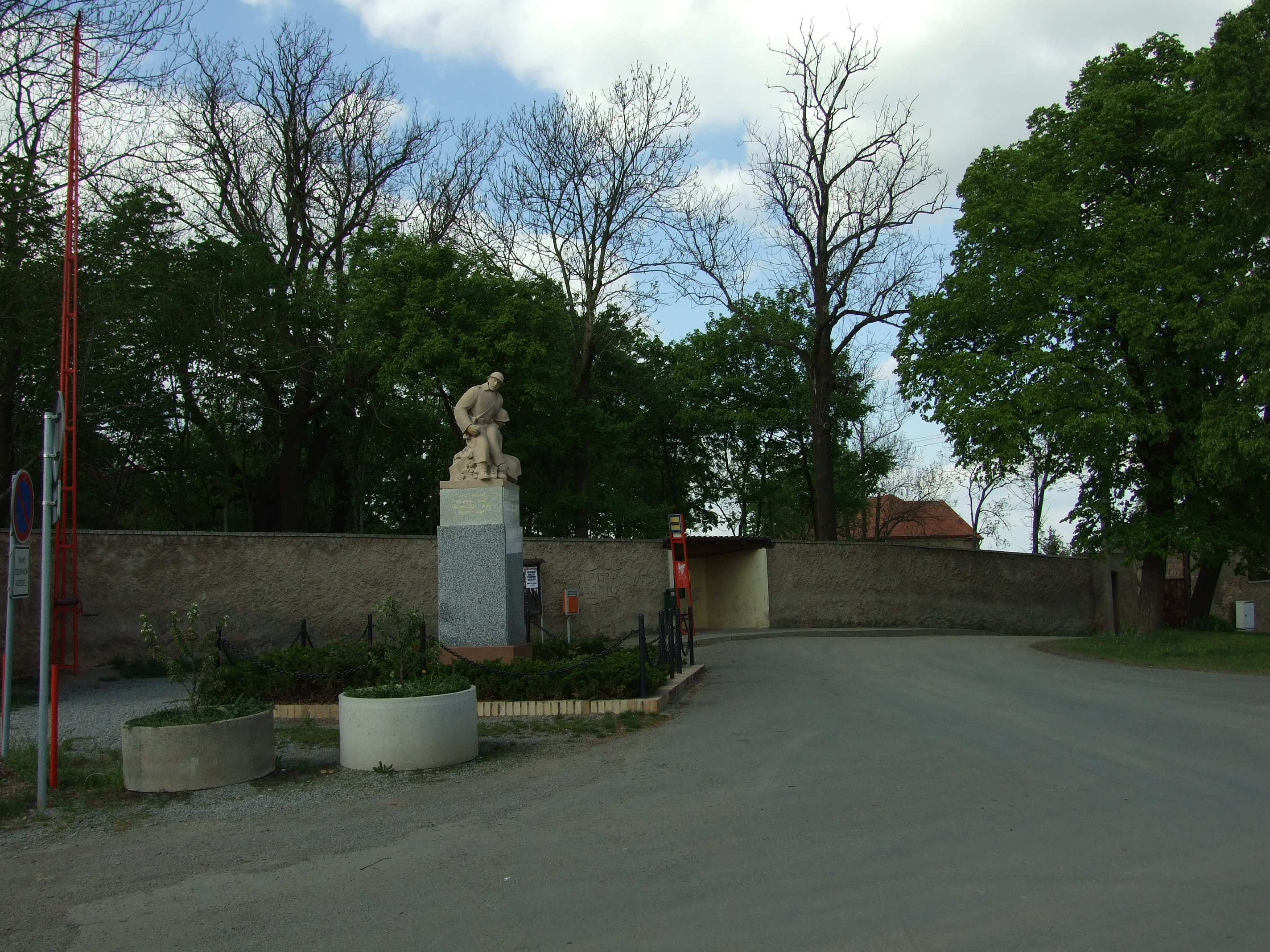 Town of Vysoký Újezd and its surrounding nature in Central Bohemian Region, CZ